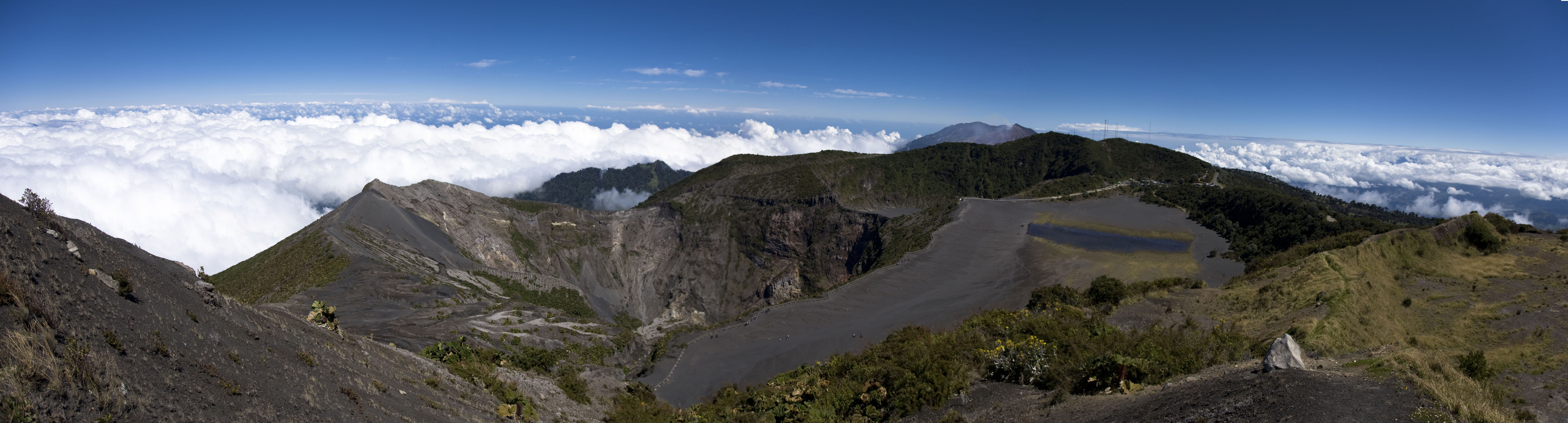 Panorama of Irazu Volcano